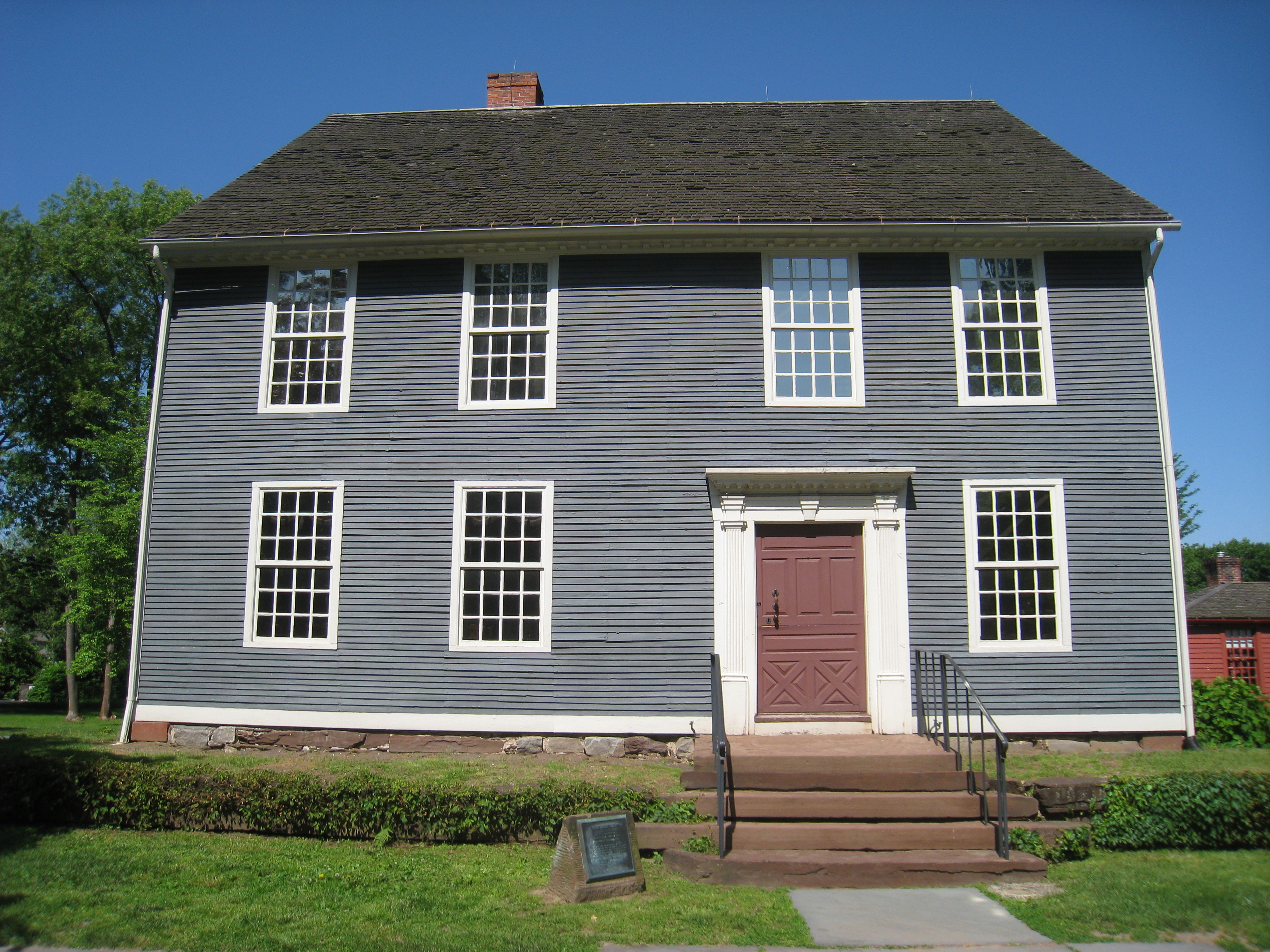 Silas Deane House, Wethersfield, Connecticut, USA. Built circa 1770.